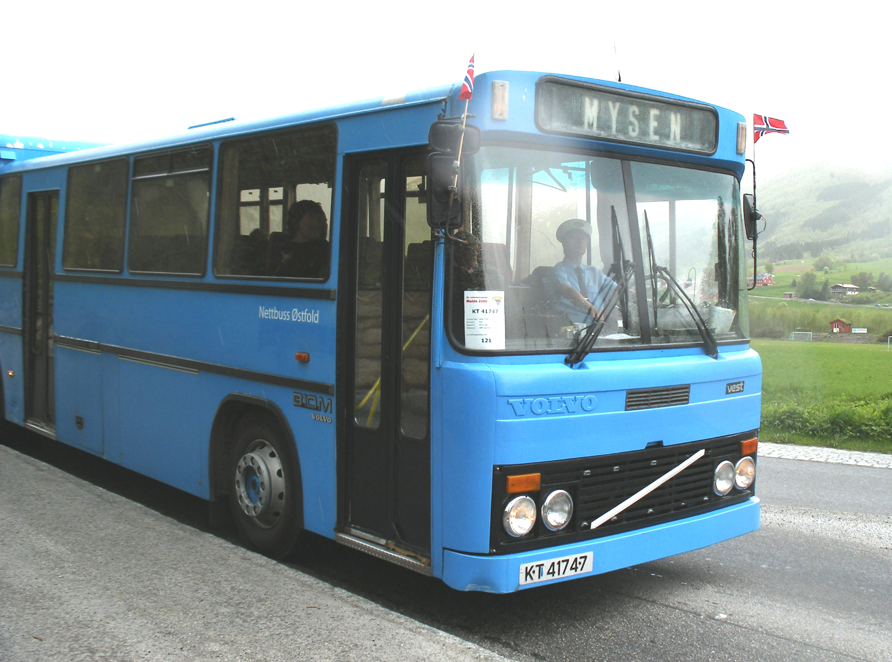 Bus from Norway. Volvo B10M bus. Nettbuss Østfold - Mysen.